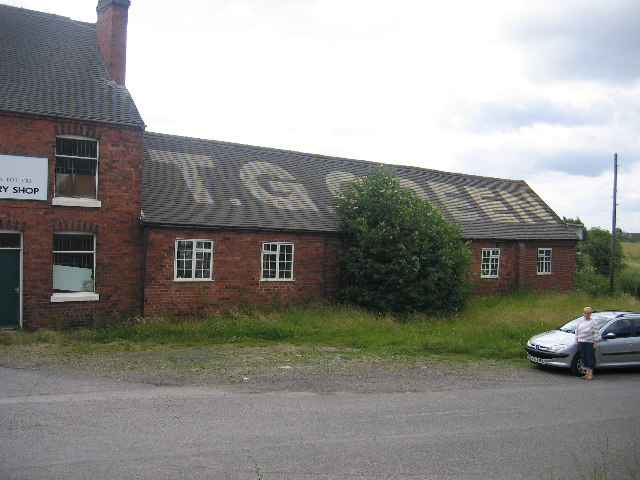 Part of the famous T G Green Factory. Collectors throughout the world marvel at Cornish blue pottery produced by T G Green here near Swadlincote